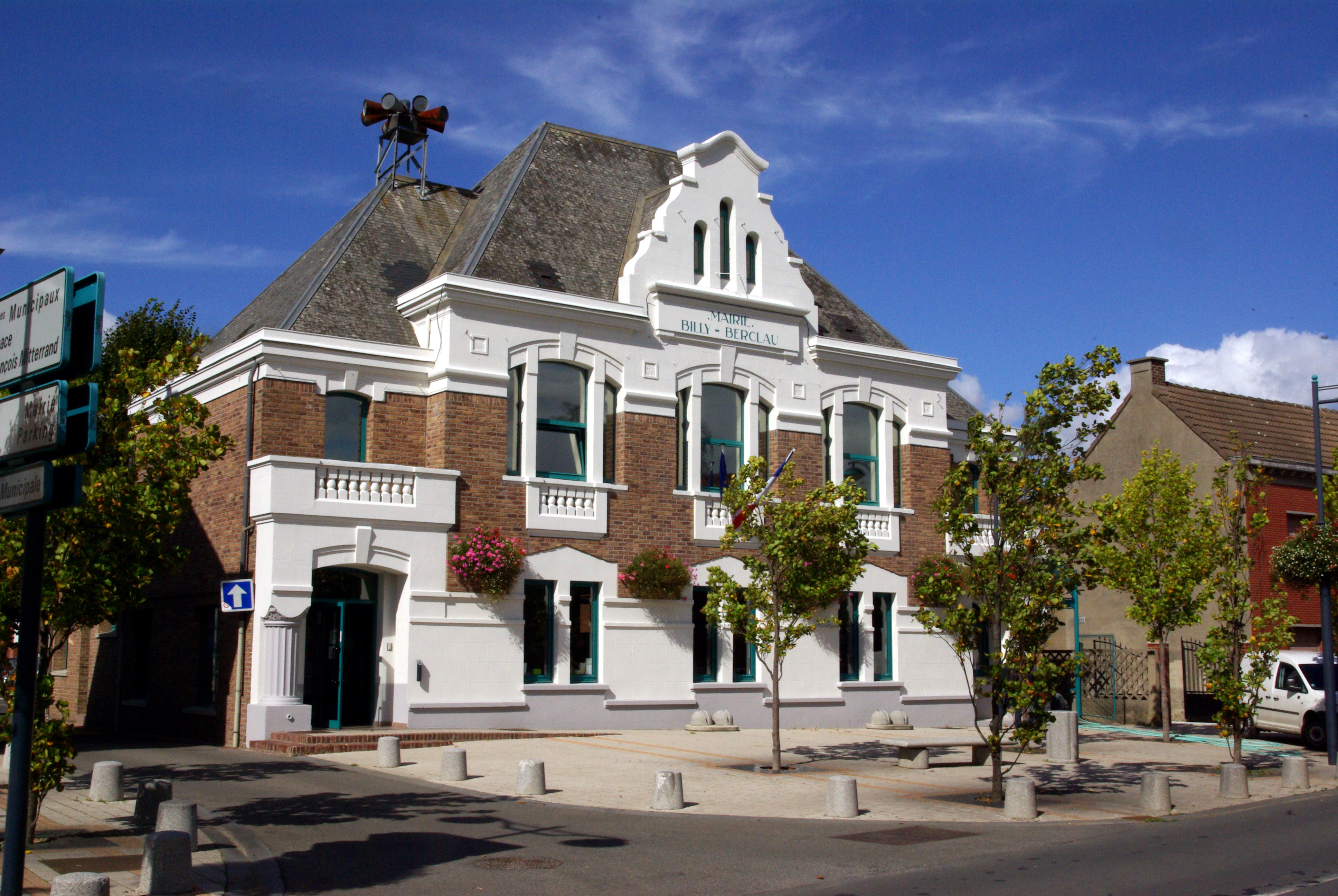 City Hall of Billy-Berclau